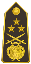 General rank of army corps Algeria